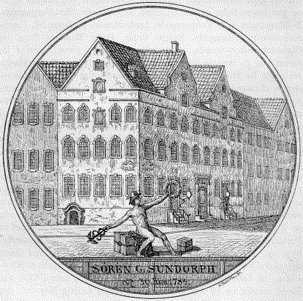 The Sundorph House at Ved Stranden 10 in Copenhagen seen on a ceremonial target from the Royal Copenhagen Shooting Society.